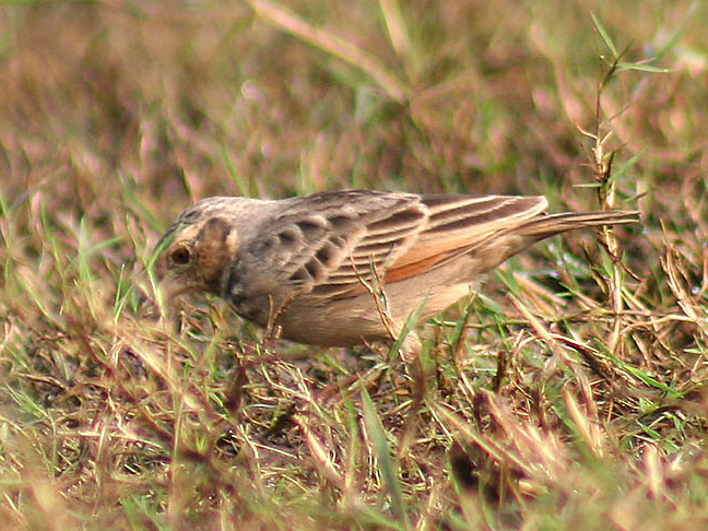 Bengal bushlark Mirafra assamica in Kolkata, West Bengal, India.